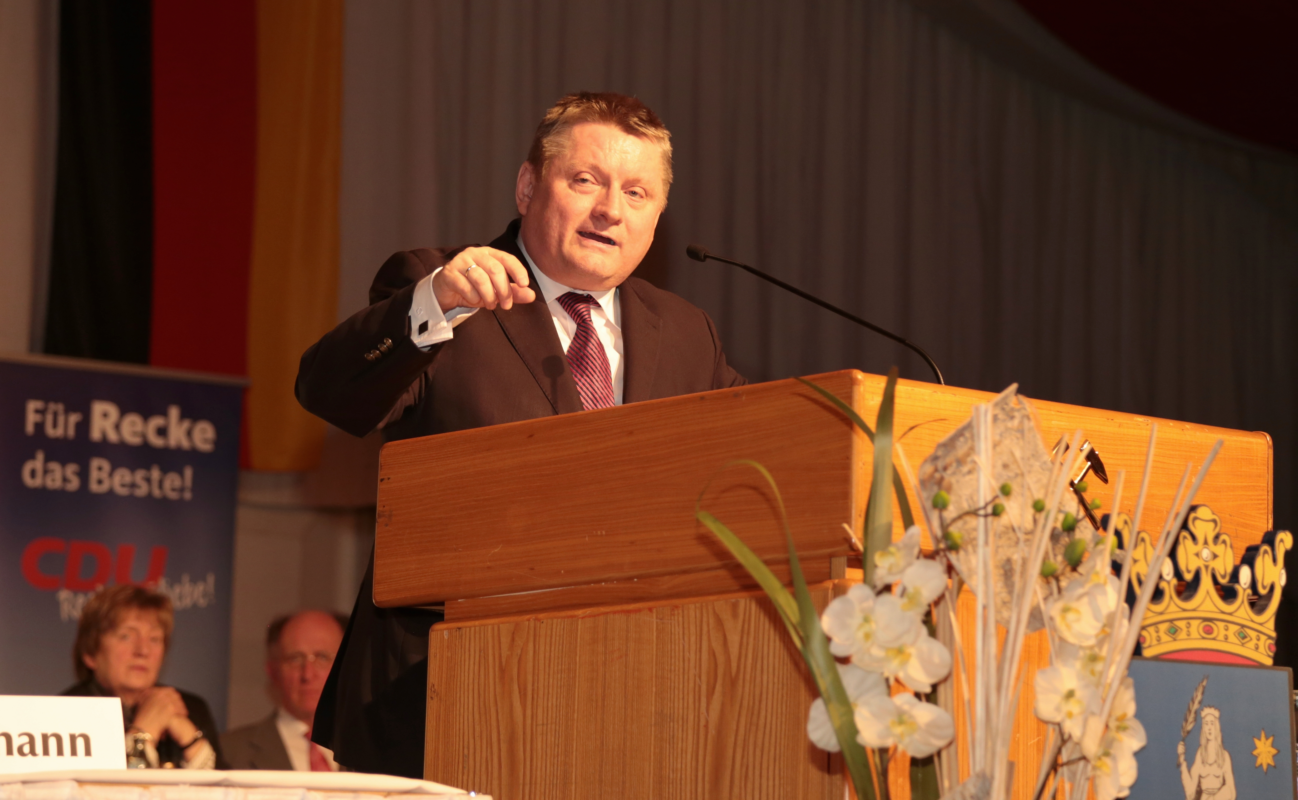 The 13th Political Ash Wednesday (Politischer Aschermittwoch) of the CDU-Kreisverband Steinfurt in Recke, Kreis Steinfurt, North Rhine-Westphalia, Germany. Picture shows the Federal Minister of Health Hermann Gröhe, the keynote speaker for the evening, during his speach at the lectern.